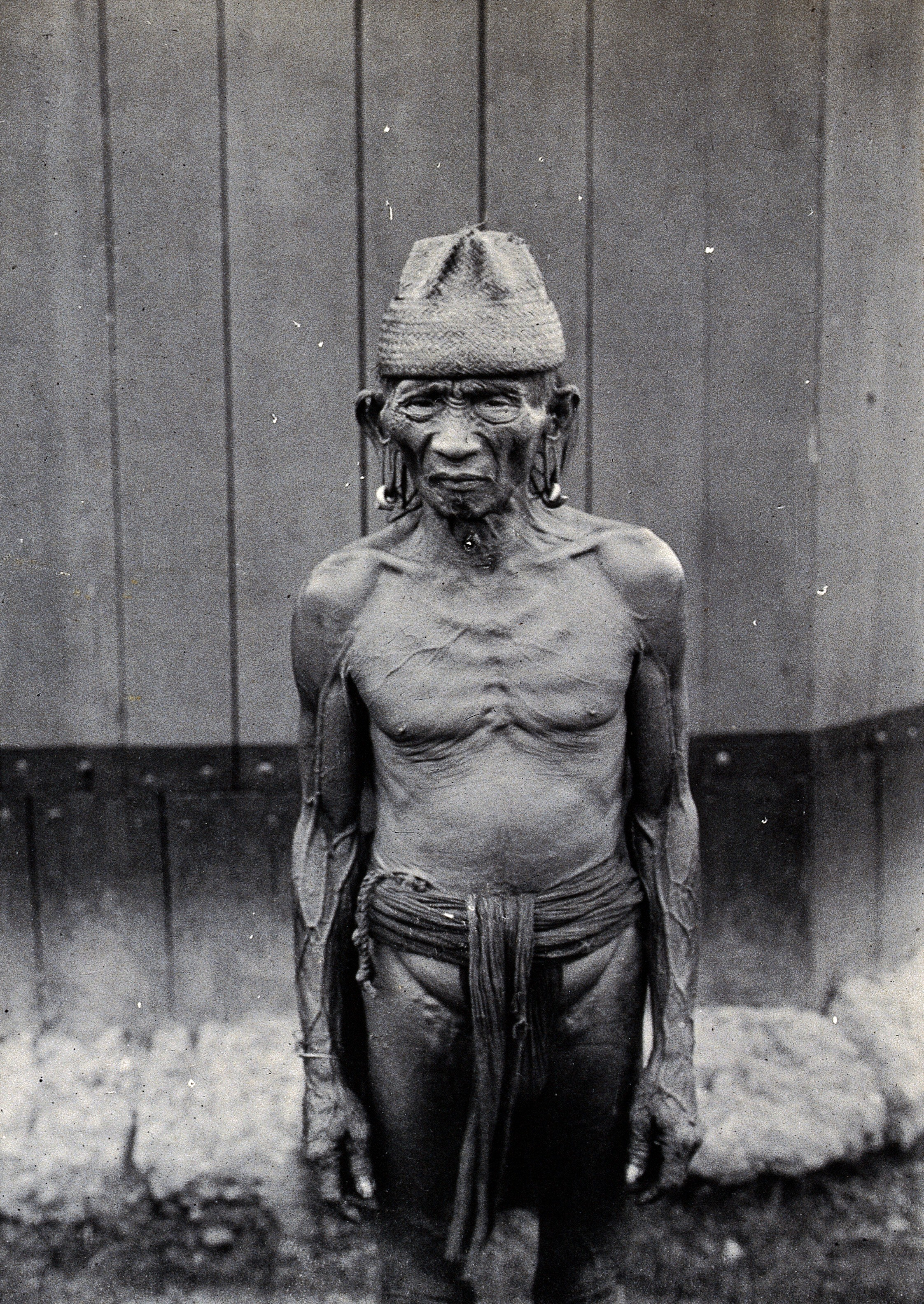 Sarawak: a Bakatan tribesman. Photograph. Iconographic Collections Keywords: Tribe; Population Groups; Borneo; Tribal; Charles Hose; Anthropology; Malaysia; Ethnography